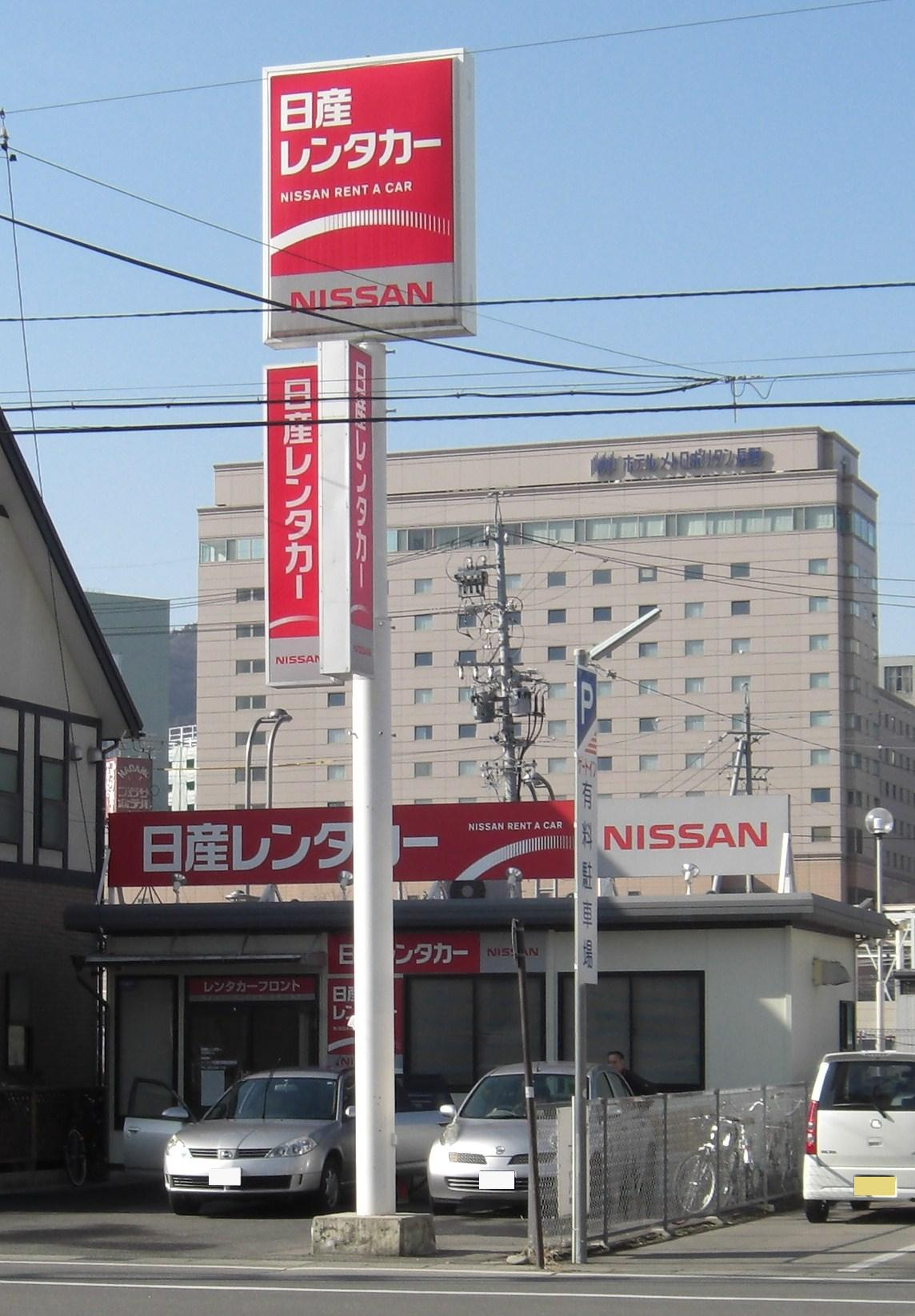 NISSAN RENT A CAR